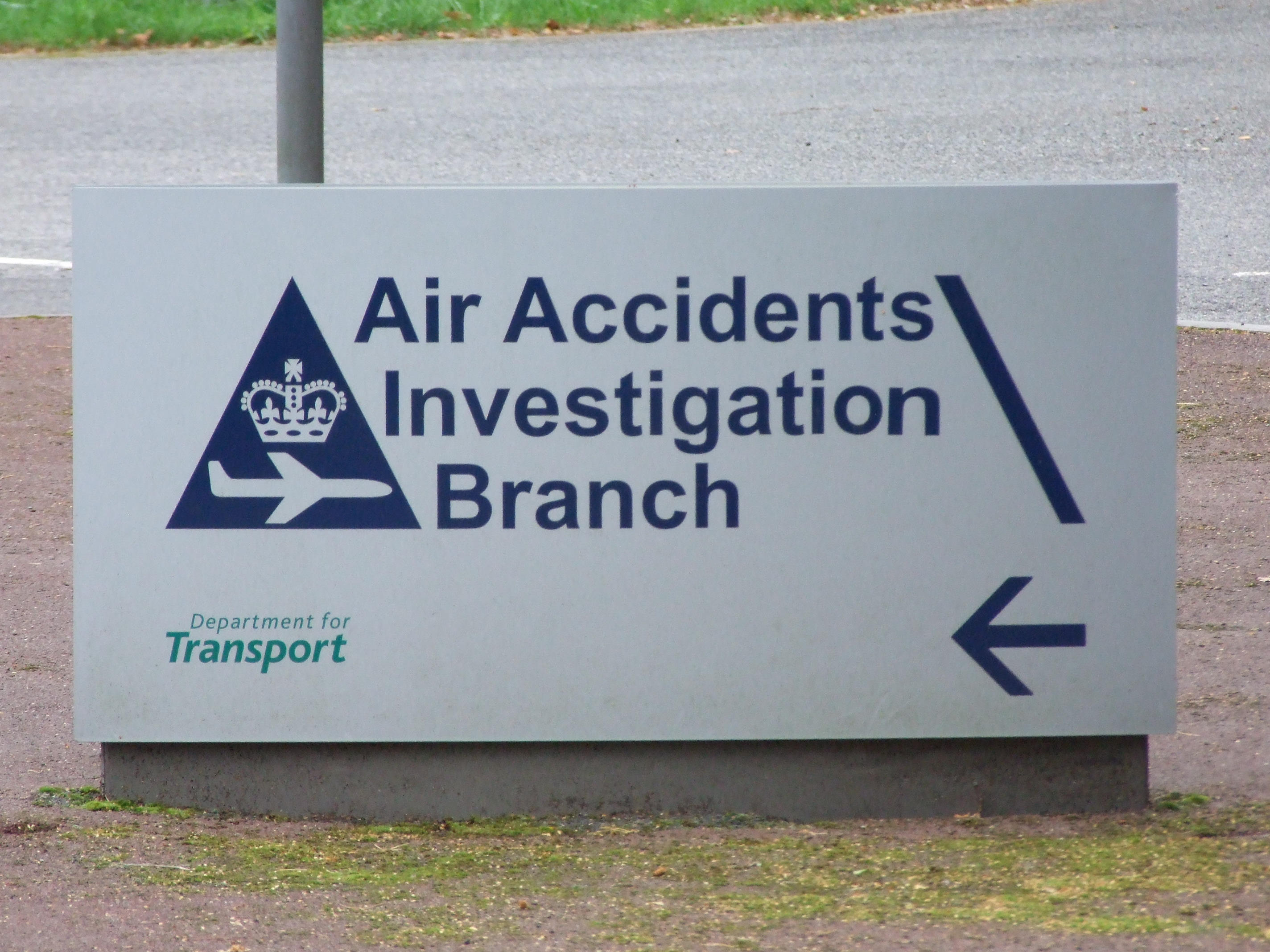 Roadsign indicating the entrance of Farnborough House, the Air Accident Investigation Branch head office.